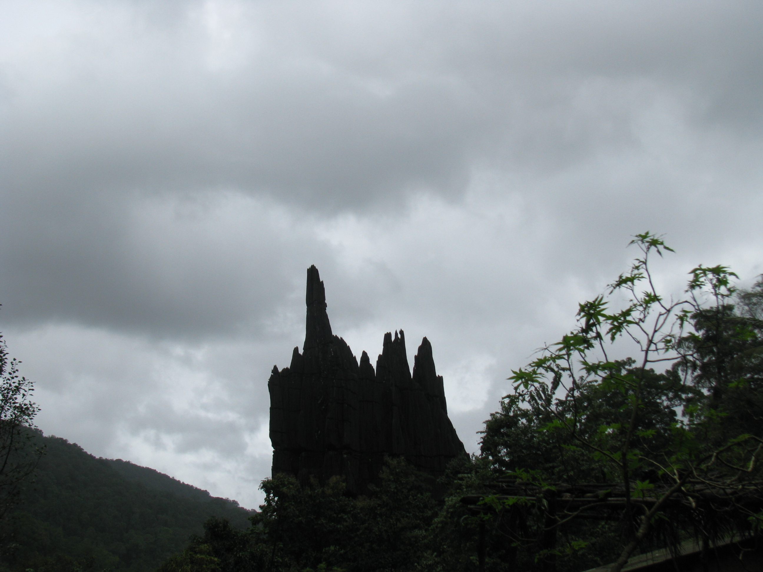 Yana Rocks - 5